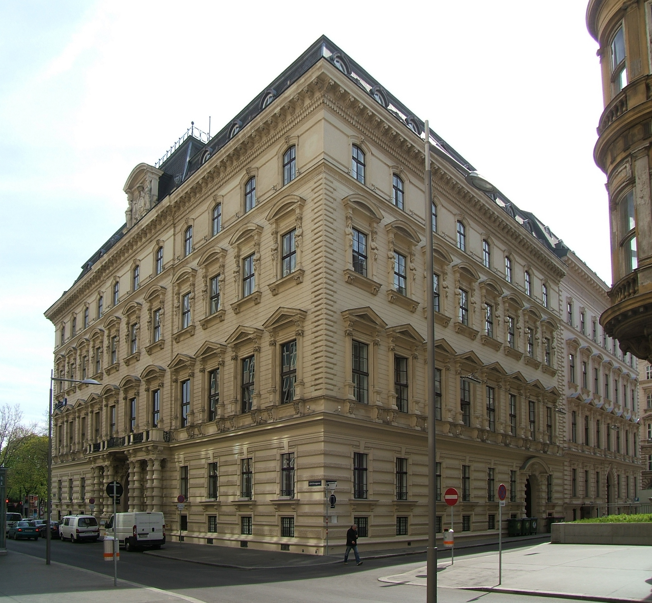 Palais Henckel von Donnersmarck in Vienna 1st district, view Weihburggasse 32